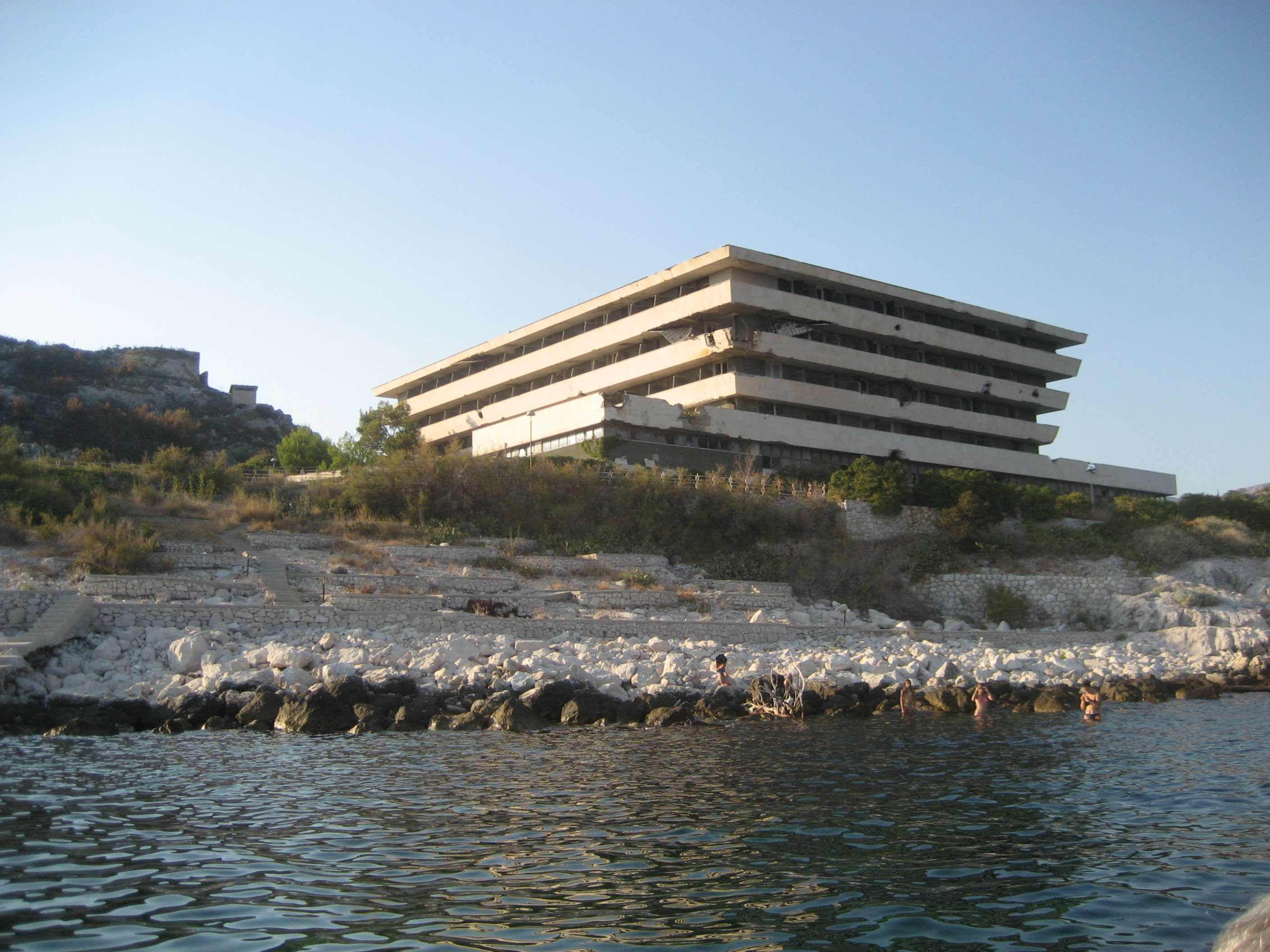 During the conflict in Croatia, the Serbian Army destroyed this hotel in 1991 in Kupari, near Dubrovnik